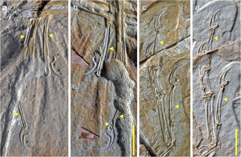 Anatomical details of the manus of Ostromia crassipes and Anchiornis huxleyi. a Detail of the preserved elements of the right manus on the main slab, showing longitudinal furrows (or their impressions) in metacarpal III and the manual phalanges (arrows). b Detail of the preserved elements of the right manus on the counterslab of the holotype of Ostromia crassipes (TM 6929), showing longitudinal furrows (or their impressions) in the manual phalanges (arrows). c, d Impression (c) and high-resolution cast (d) of the left manus of the holotype of Anchiornis huxleyi (Institute of Vertebrate Paleontology and Paleoanthropology IVPP V 14378), showing longitudinal furrows in the manual phalanges (arrows). All scale bars are 10 mm